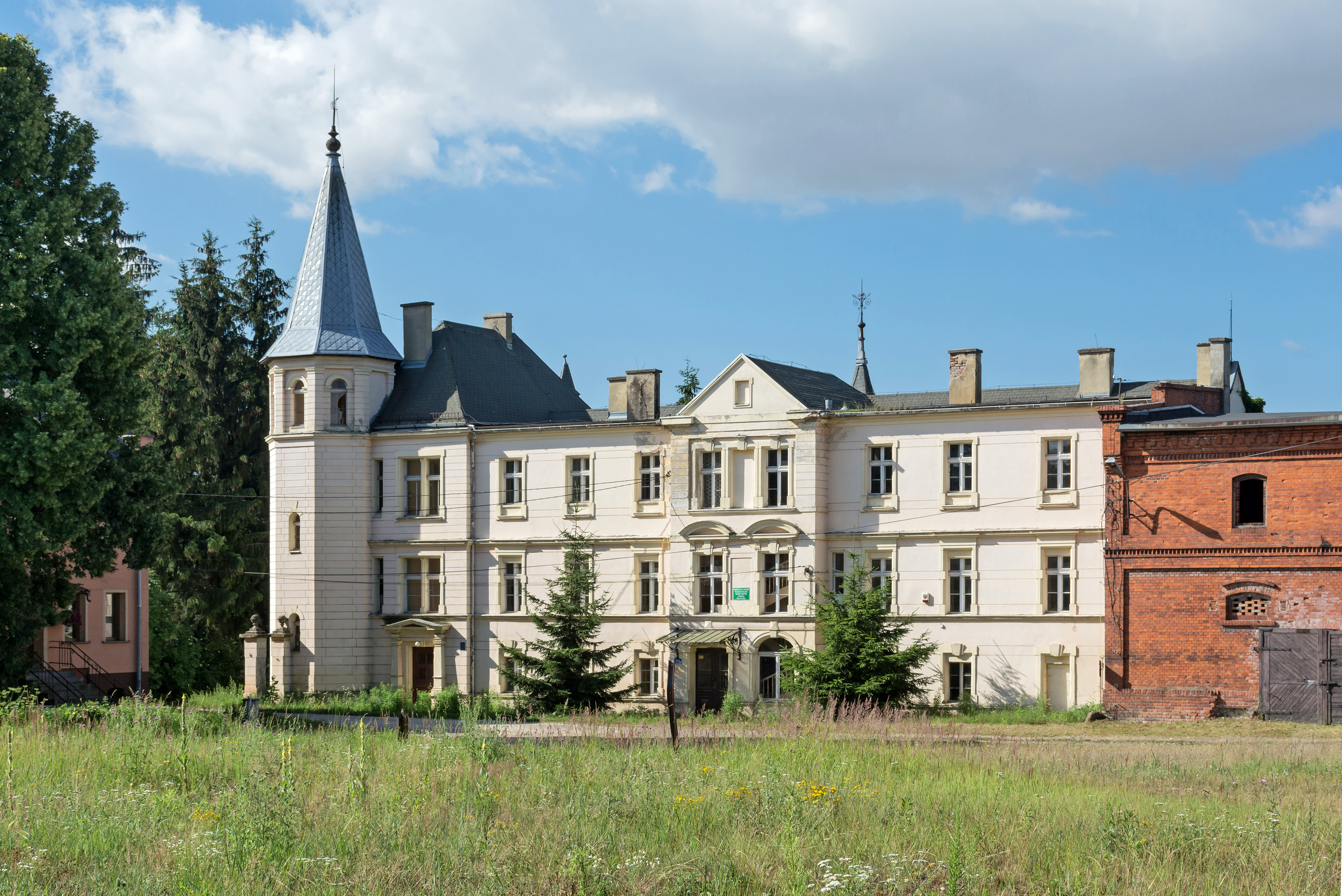 Manor in Ławica